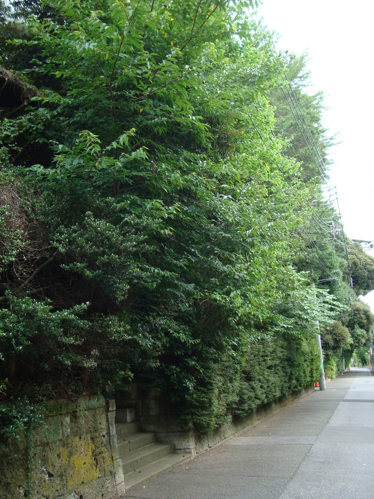 Woods of former Hanezawa Garden, Hiroo, Tokyo